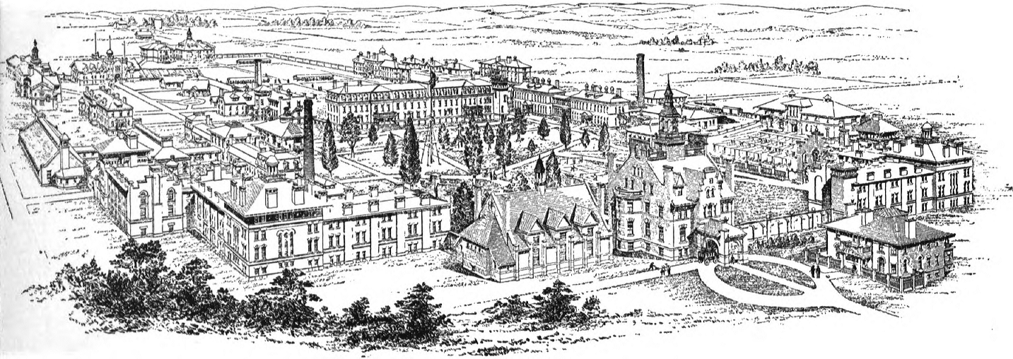 Frontispiece illustration of Tewksbury Hospital Campus in 1907